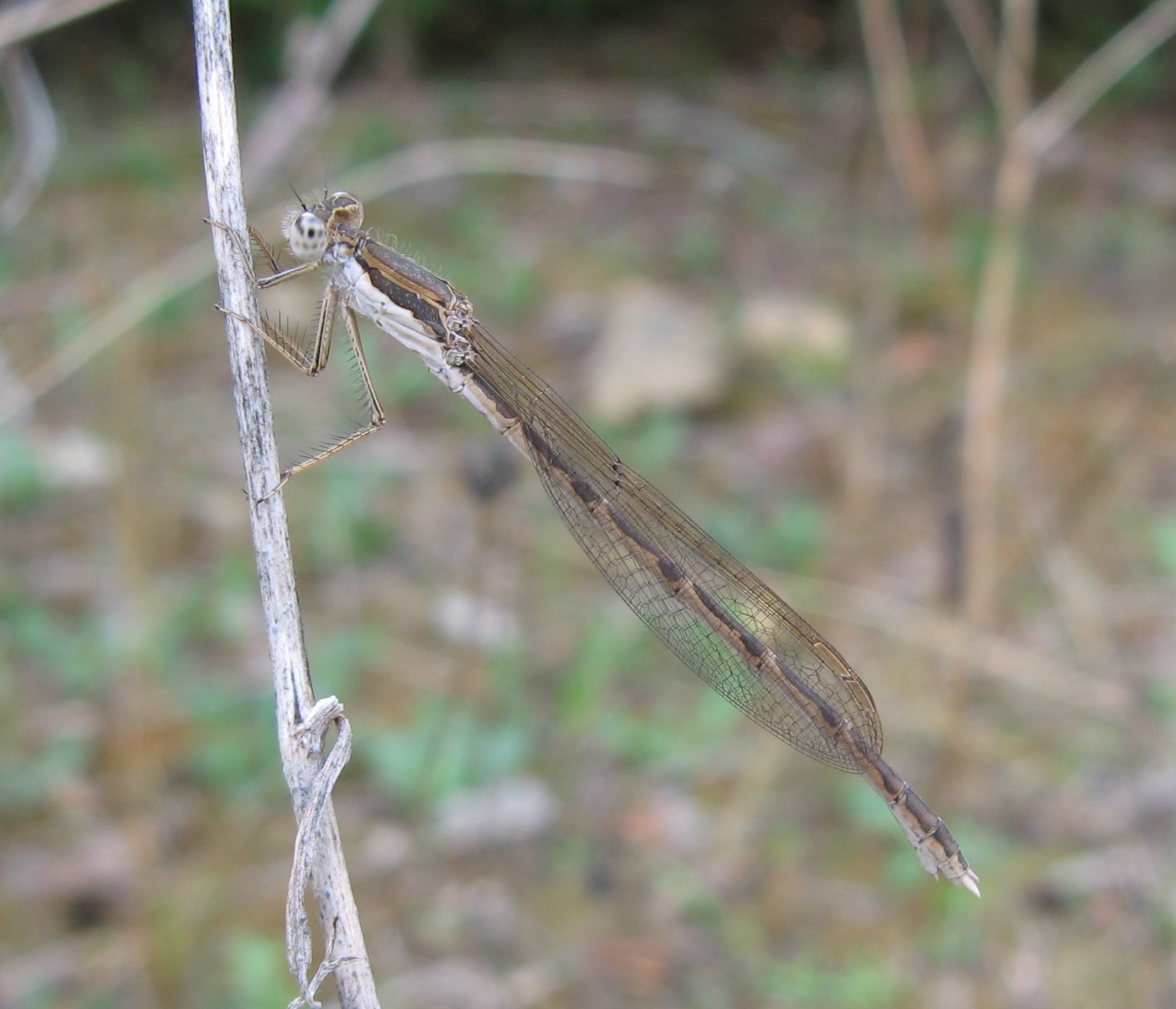 Sympecma fusca taken on Menorca